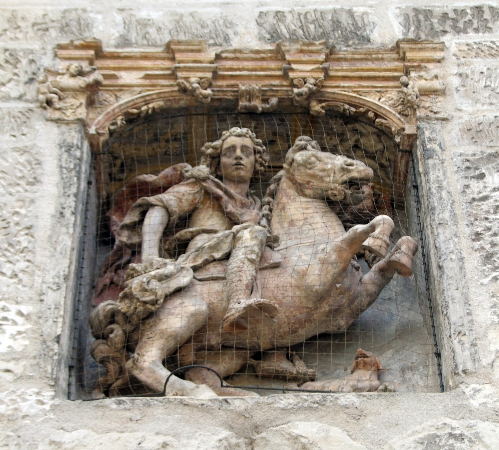 Joigny, Yonne, Burgundy, FRANCE